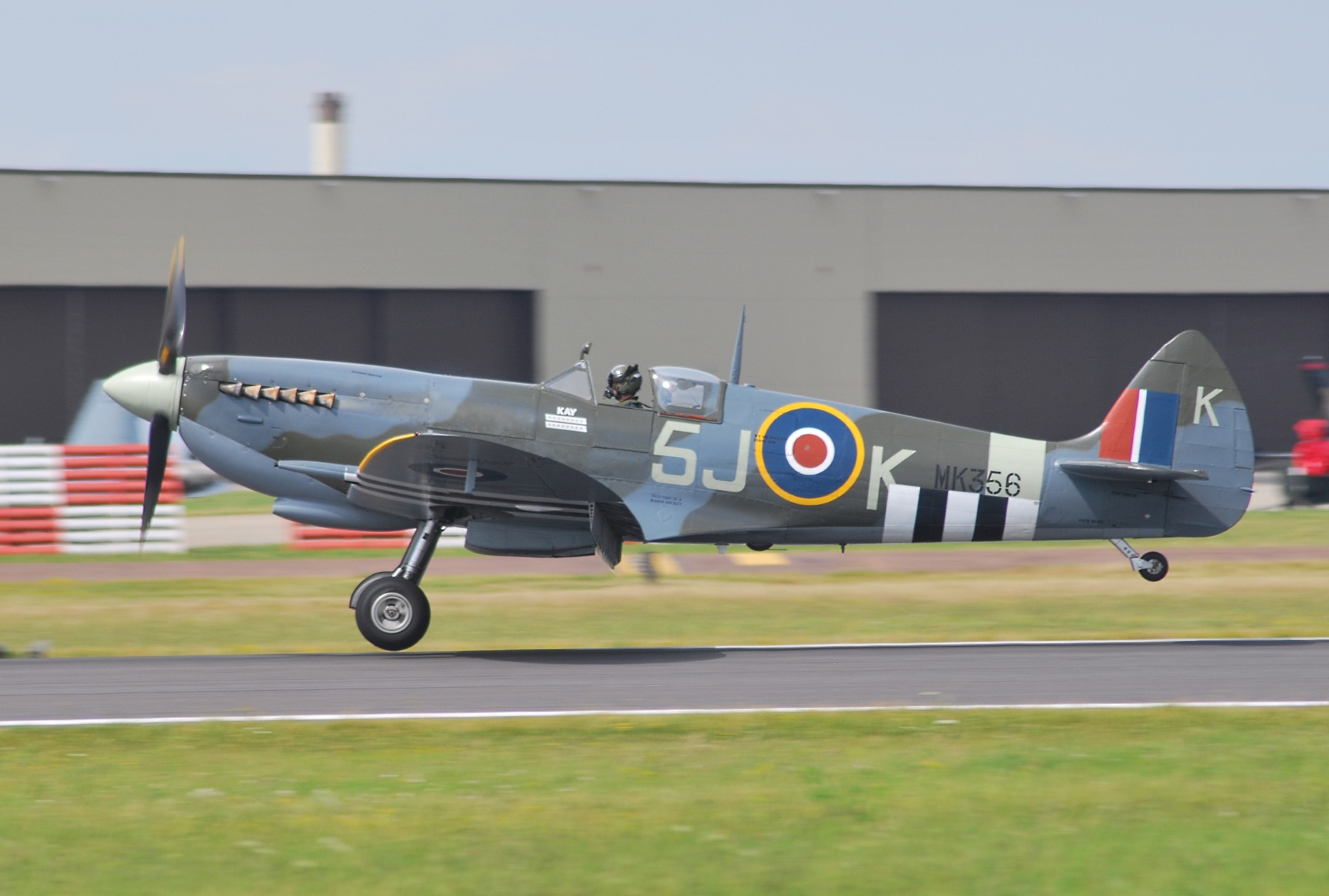 BoBMF Spitfire LFIXe about to touch down at RAF Fairford